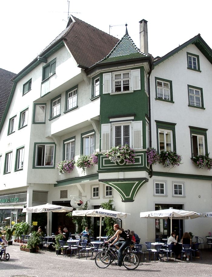 House of family Wieland in Biberach an der Riß, Germany